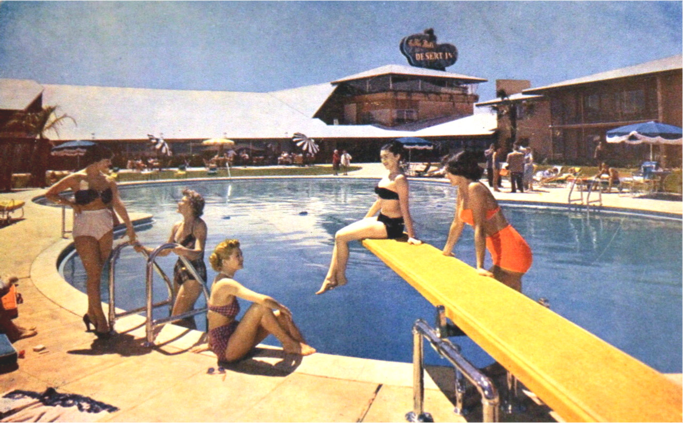 Photo of girls at the Desert Inn pool in 1955 from a postcard.